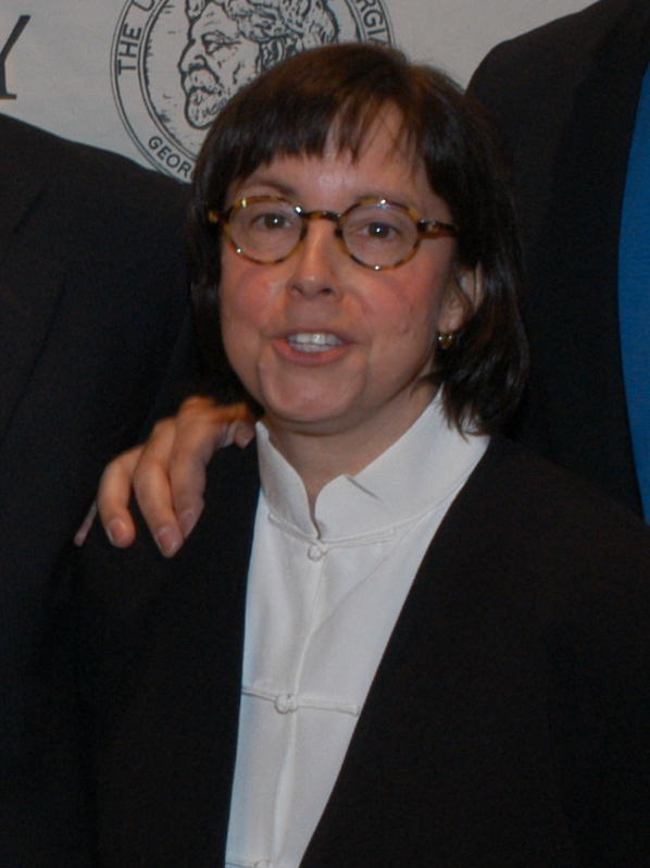 Susan Zirinsky at 62nd Annual Peabody Awards Luncheon, Waldorf=Astoria Hotel, May 19, 2003 PHOTO CREDIT: ANDERS KRUSBERG / PEABODY AWARDS